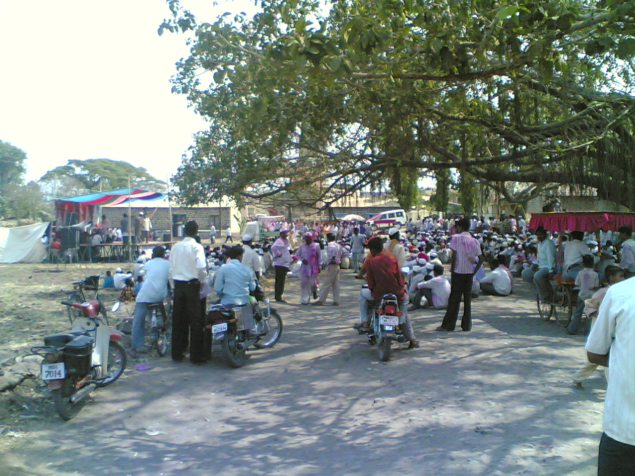 Bhikawadi Tamasha